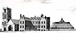 280 yr old drawing